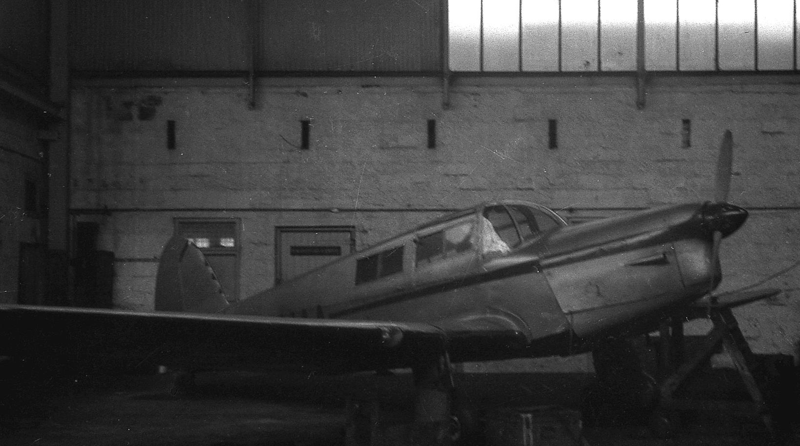 I was on board this aircraft (G-AIAA) when it crashed and was written off at the old Derby Airport (Burnaston)